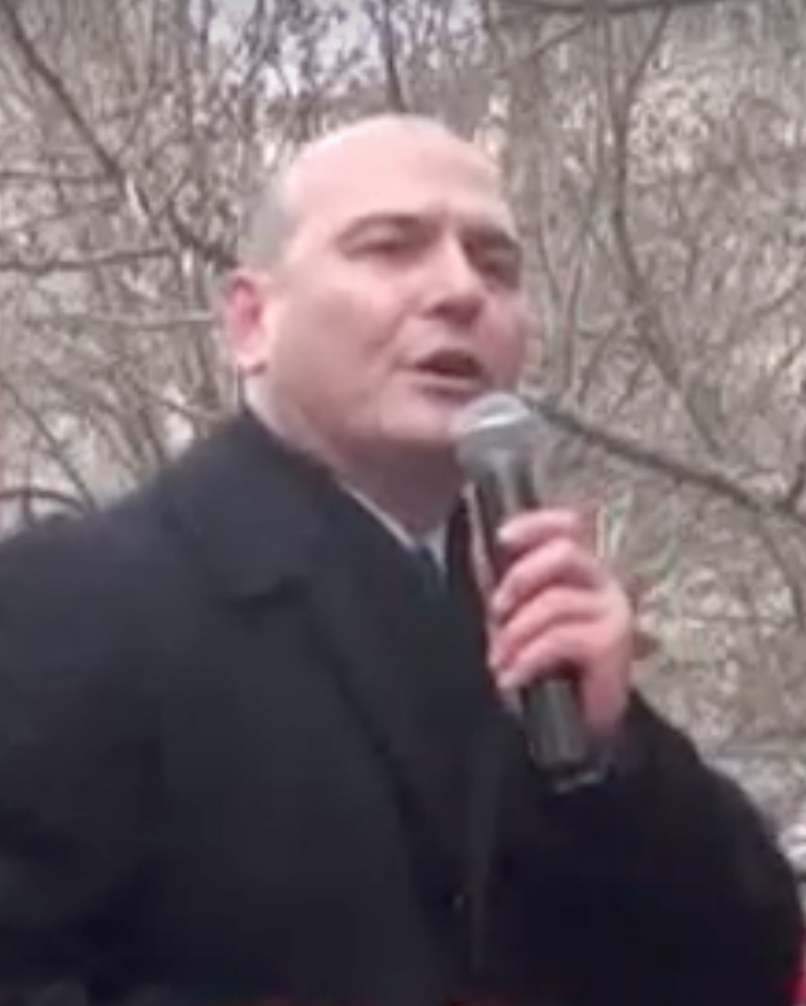 AK Party deputy leader and Government Minister Süleyman Soylu